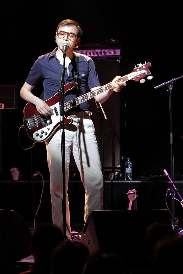 Bertrand Burgalat in Paris